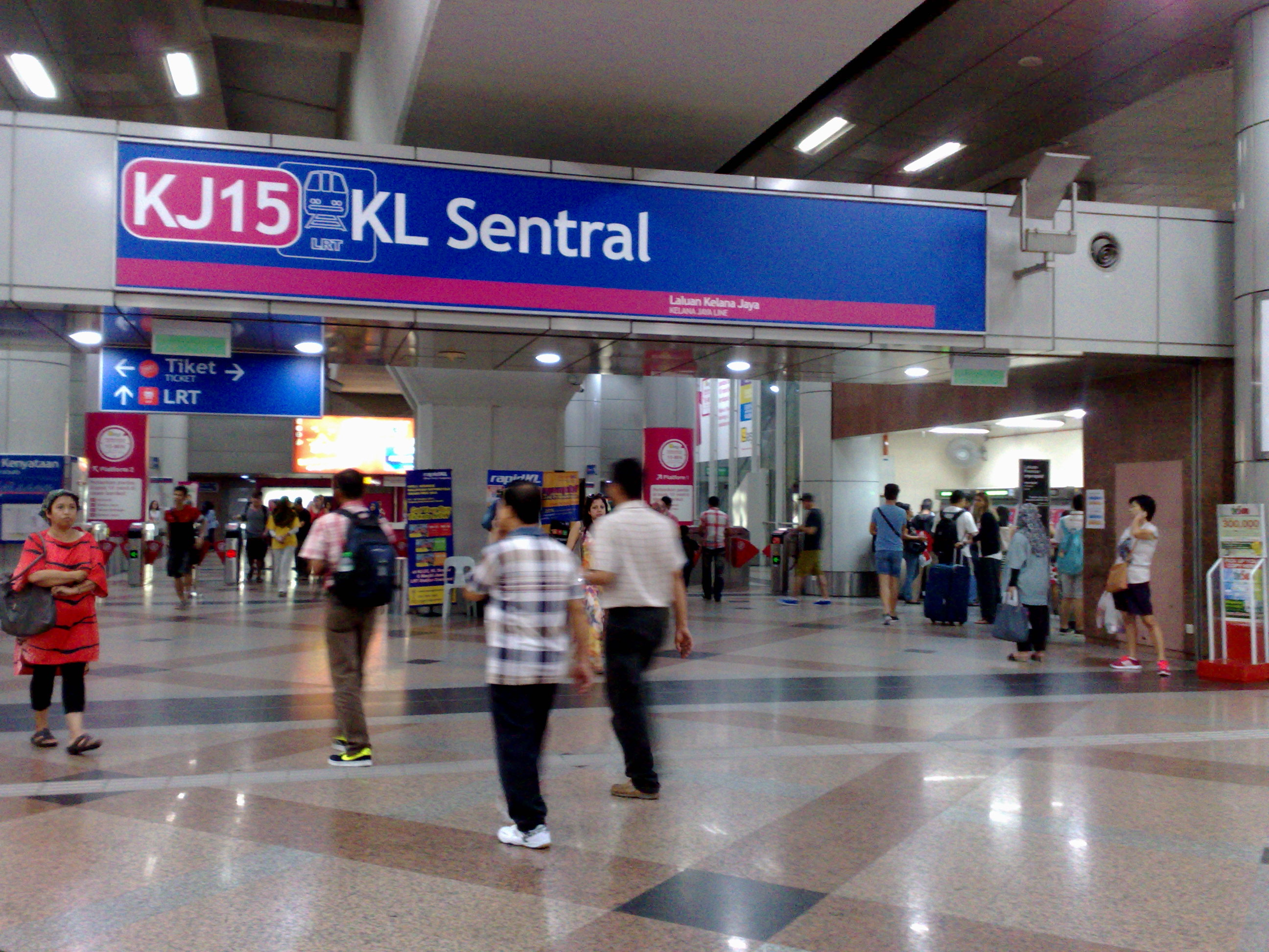 KL Sentral LRT station